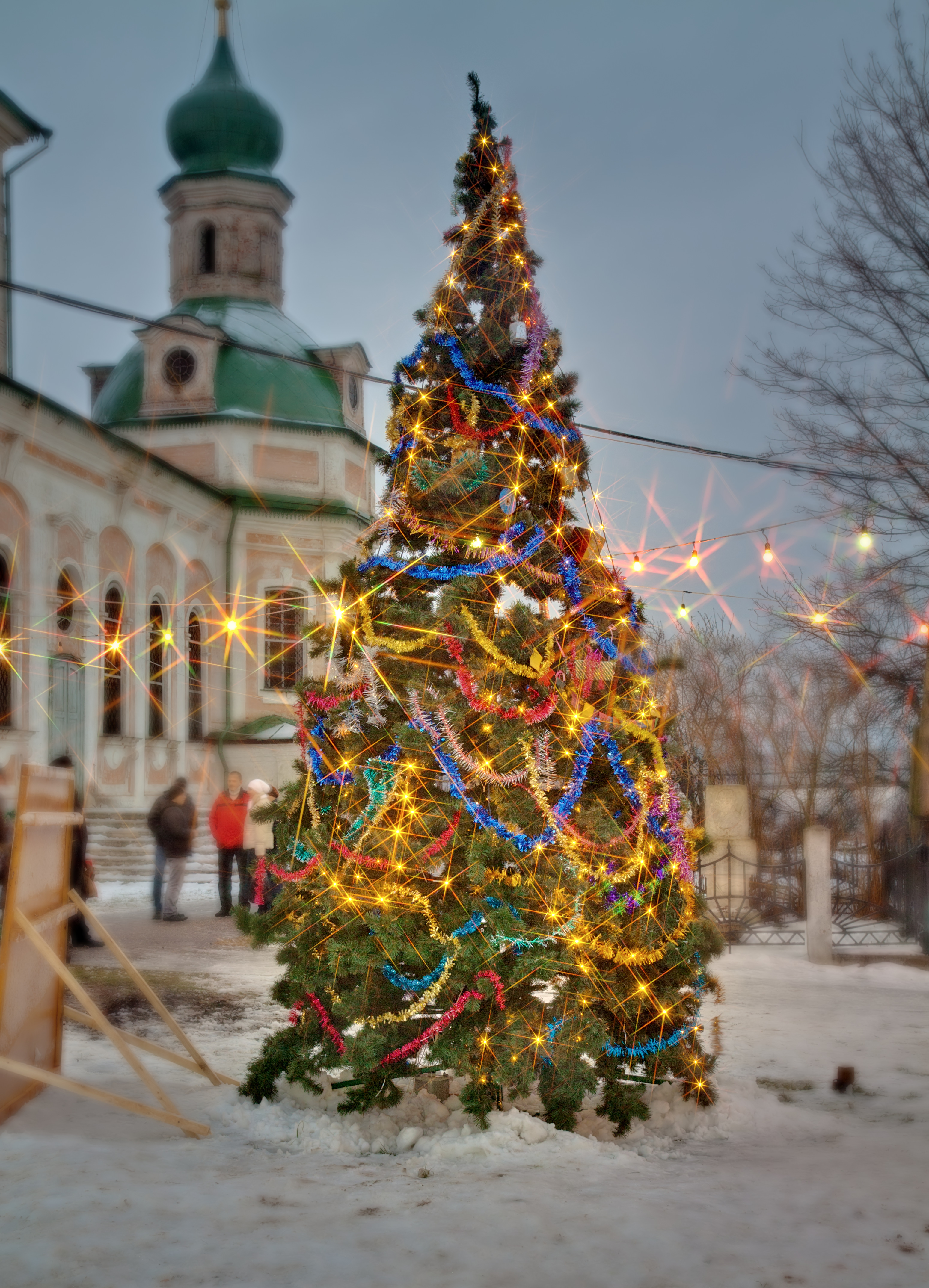 Christmas tree. Pereslavl museum, Christmas 2012